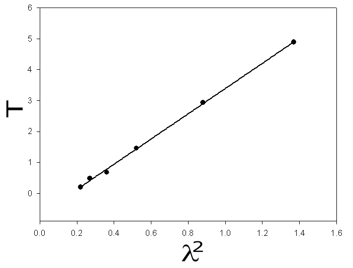 Melde's experiment graphic tension versus two times wavelenght